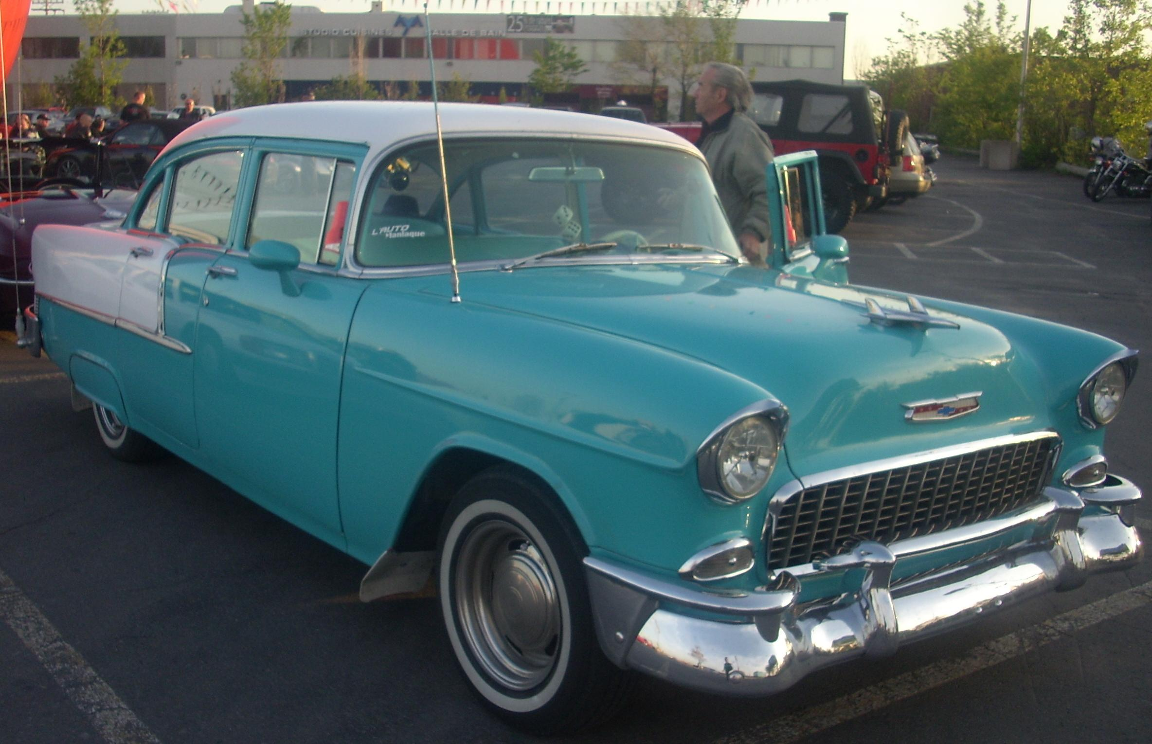 1955 Chevrolet Bel Air photographed in Montreal, Quebec, Canada at Gibeau Orange Julep.